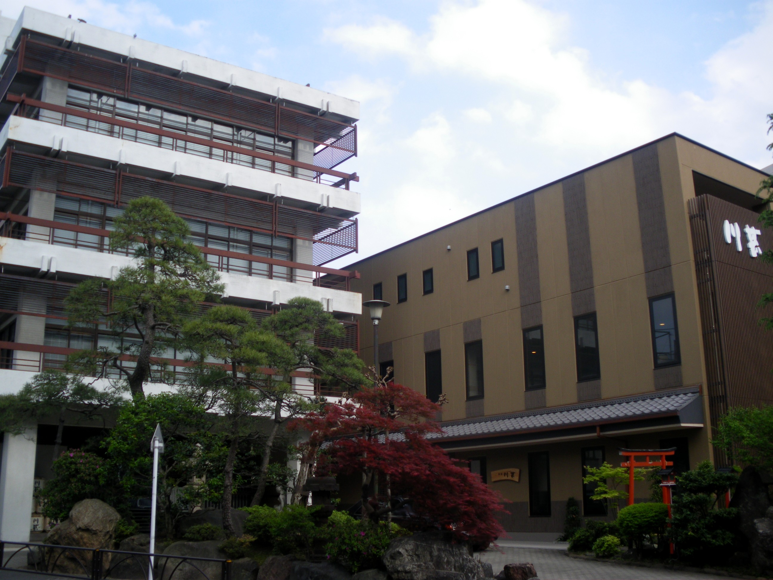 Kawajin(Shibamata,Katsushika,Tokyo)